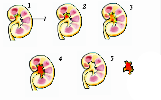 Small crystals formed in kidney. The most common renal calculi are made of Calcium oxalate and they are generally 4-5 mm Staghorn Kidney Stones are considerably larger- and commonly made of Struvite. 1. Nucleation.. Calcium and Oxalate join together to make the crystal nidus. Supersaturation joins them together (as does inhibition.) There are two types of joining of crystals - Homogenous- same comp - Heterogenous- Cell debris It is depositied at the Renal Papilla ( I ) 2. Continued deposition at the Renal Papilla leads to growth of the kidney stones. Step 3: Aggregation: Is where kidney stones grow and collect debris. In the case where the kidney stones block all routes to the Renal Papillae this can cause severe discomfort. 4:The complete staghorn forms and retention occurs. Retention: Smaller solids that break off can become trapped in the urinary glands causing discomfort. 5: Displaced and travel through Uretha. If it can not be broken down it must be physically removed by a surgeon.